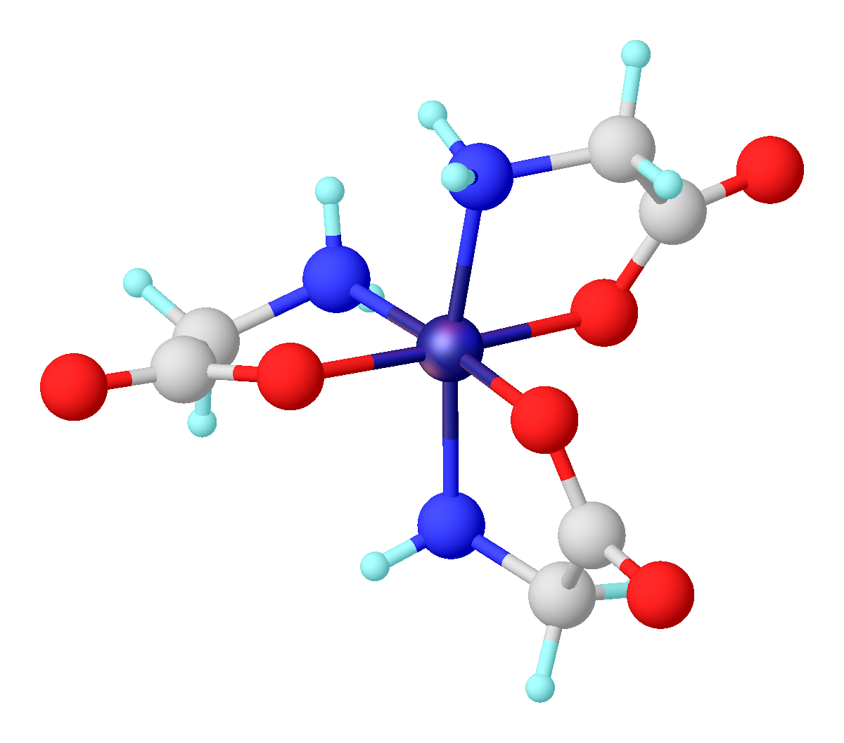 structure of Co(glycinate)3 from doi=10.1107/S1600536807005636